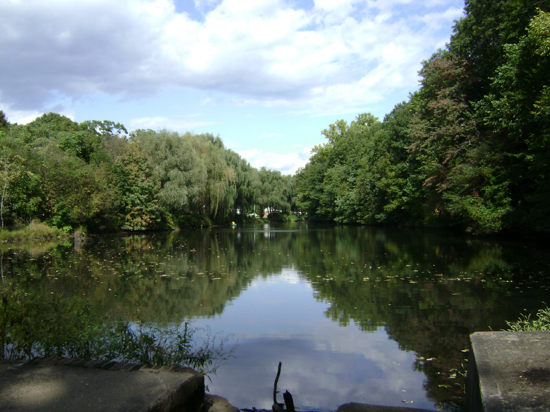 Kings Pond, seen facing north from the dam in Kings Pond Park in Ridgewood on October 4, 2009. In the background, a person can be seen canoeing along the west bank of the pond.